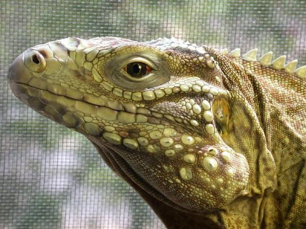 Pete, a Cyclura nubila caymanensis, next to a window